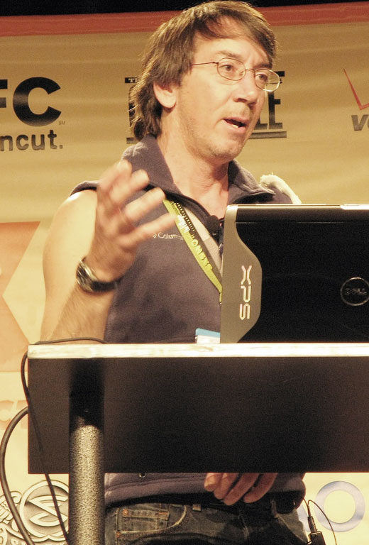 Will Wright speaks at South by Southwest